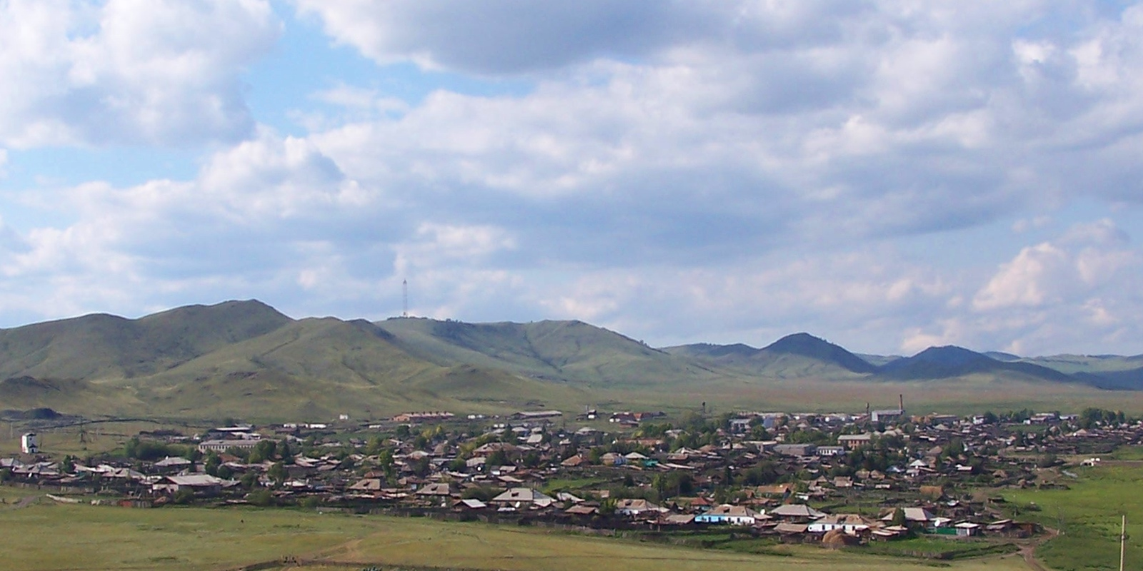 Panorama of Borodino (Khakassia, Russia)